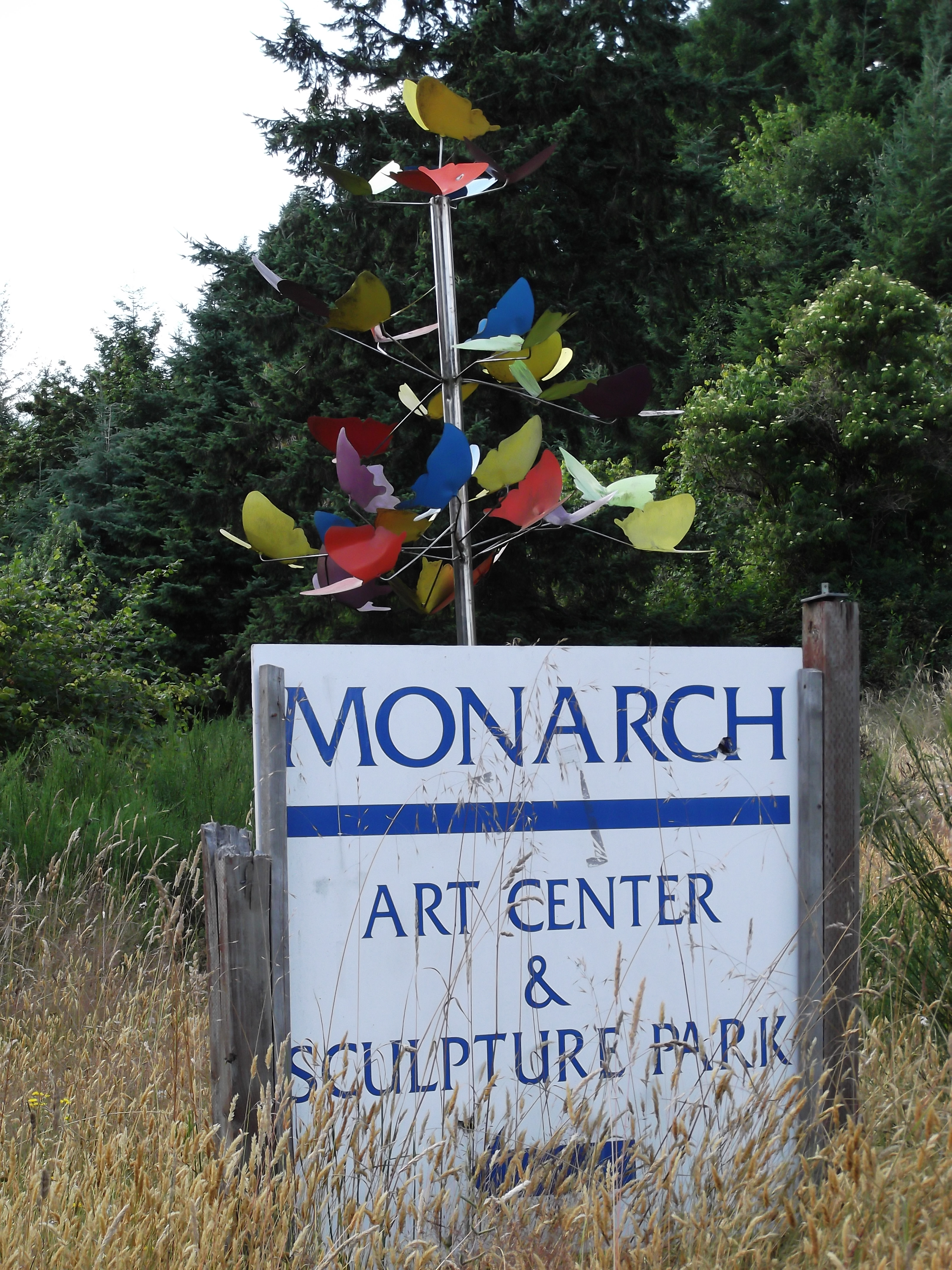 Butterfly tree and sign identifying the entrance to Monarch Contemporary Art Center and Sculpture Park in Thurston County, Washington, United States.